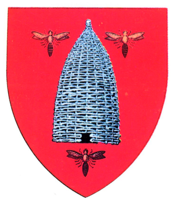 Interwar coat of arms of Vaslui County, Kingdom of Romania.